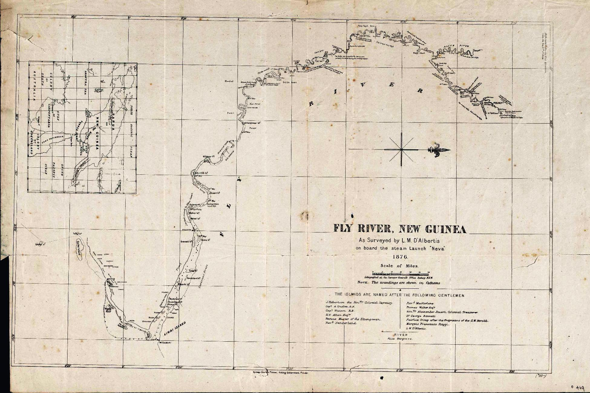 Fly river, Papua New Guinea: as surveyed by L. M. D'Albertis on board the steam launch "Neva" 1876